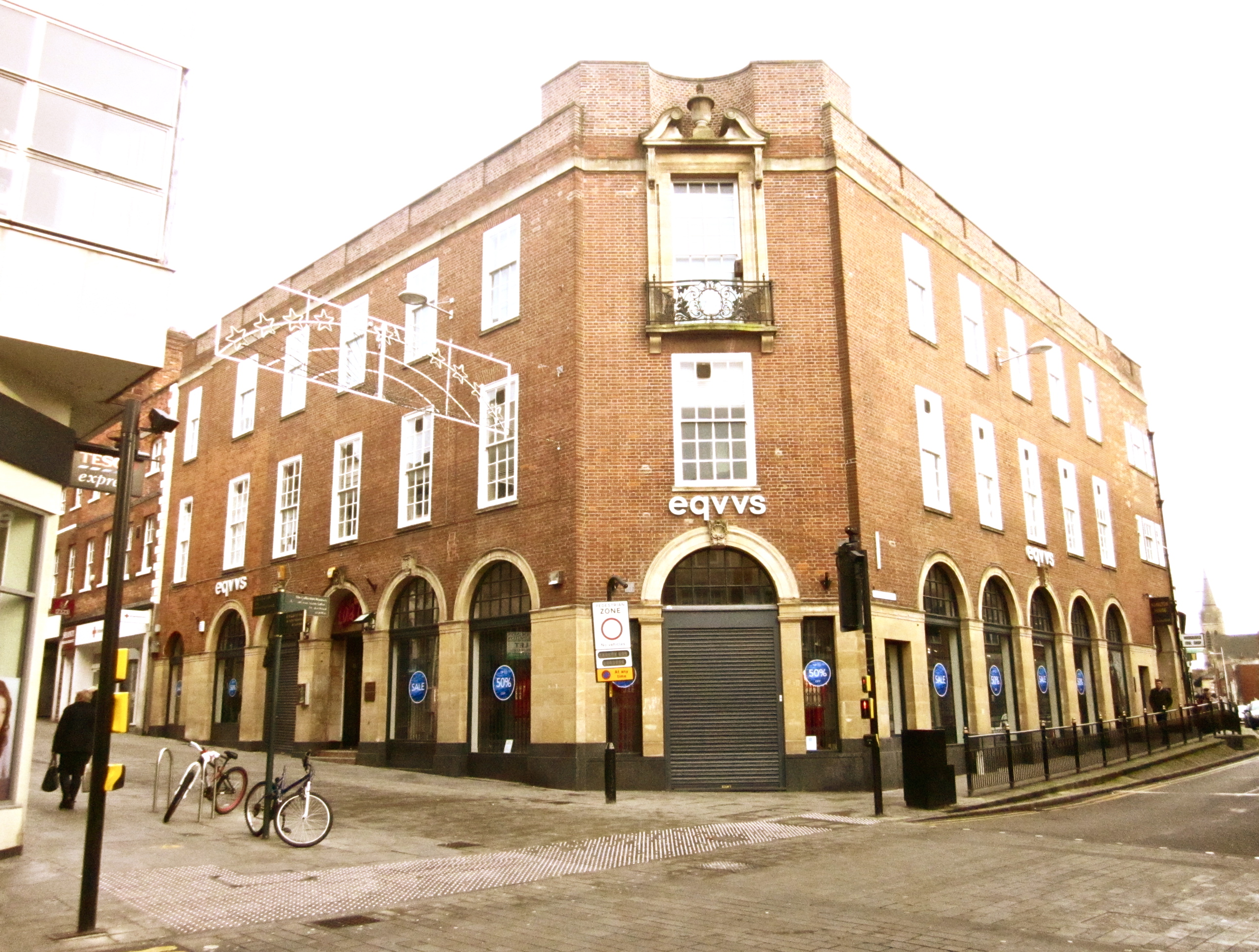 Former Boots store Lincoln, by the architect Percy Richard Morley Horder, 1924.